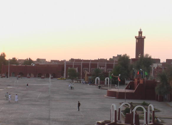 Place des martyrs, Adrar, Algeria